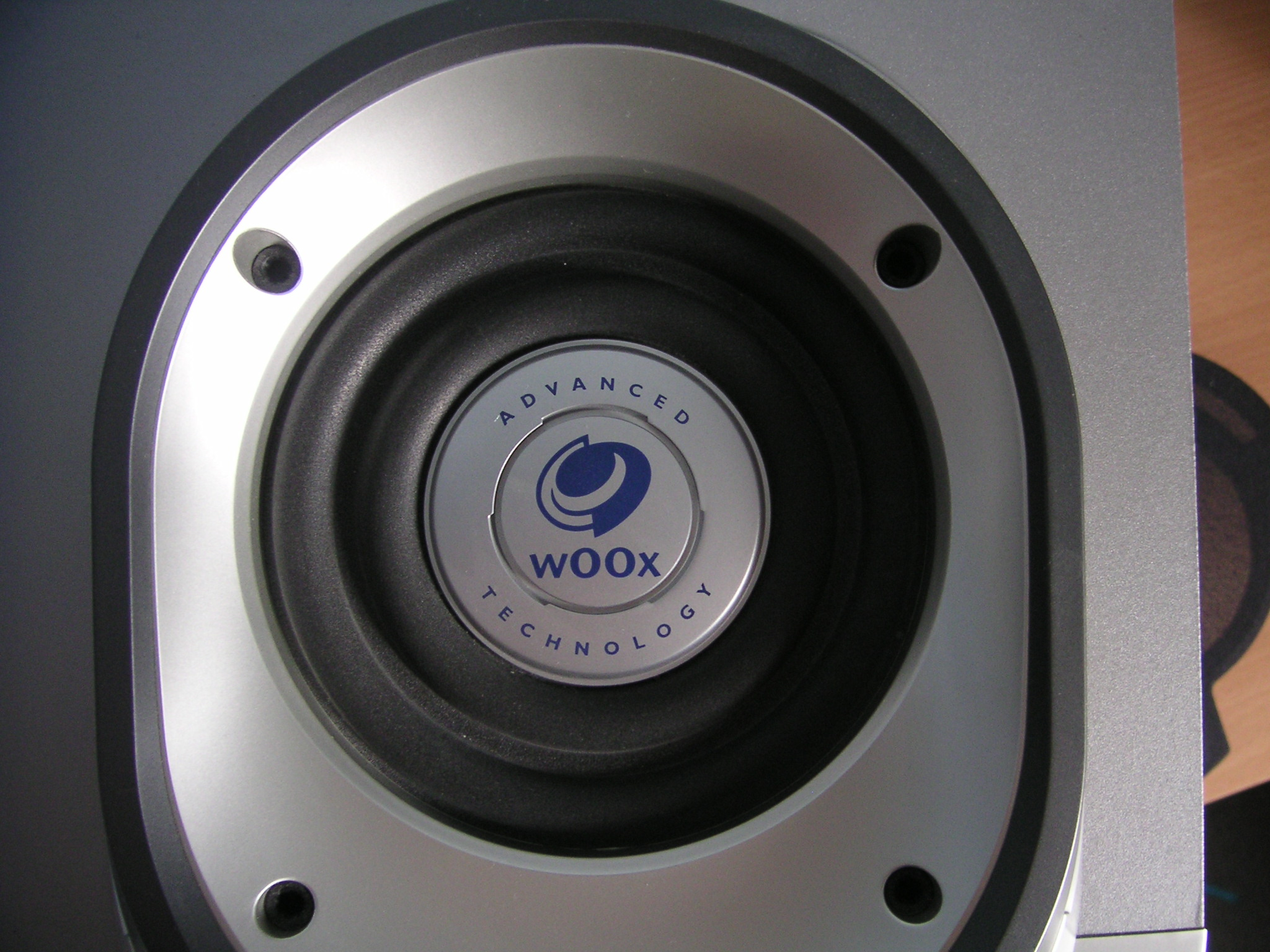 A passive radiator with wOOx Technology, on top of a loudspeaker system from a Philips FW-C80 mini hi-fi system.